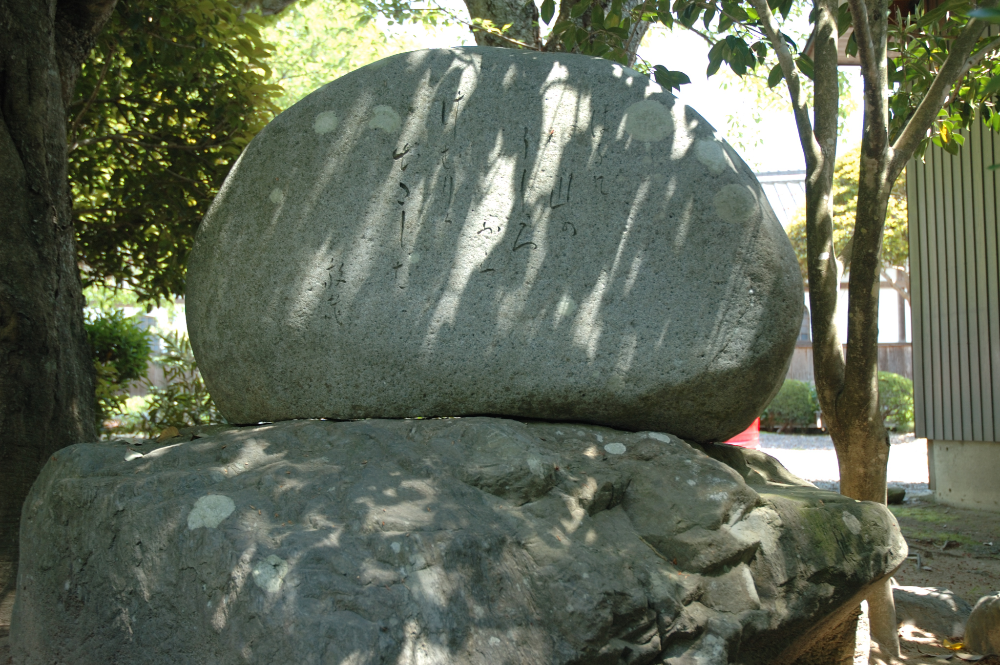 a stone monument of Ozaki Hosai(He is a Japanese haiku poet)